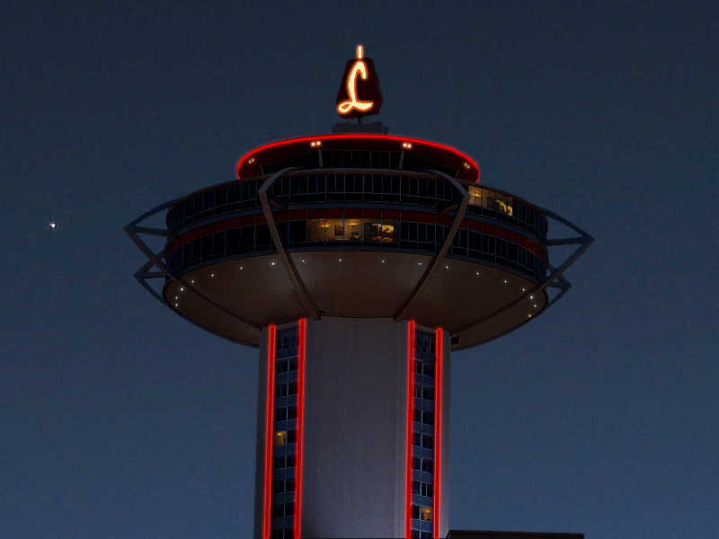 Artist's rendition of the Landmark Hotel tower in Las Vegas, NV as it looked at night in the late 1980s